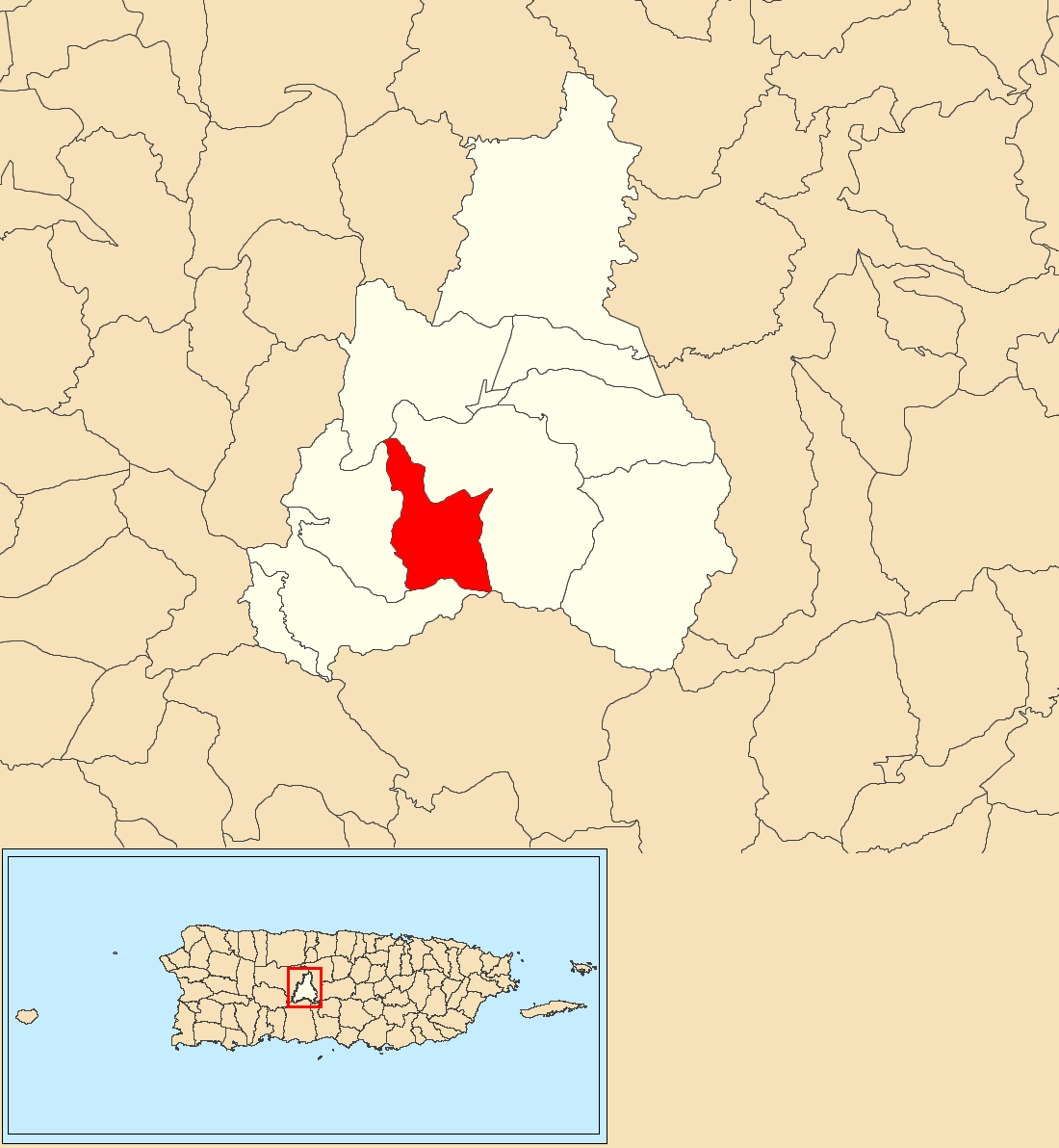 Zamas, Jayuya, Puerto Rico locator map